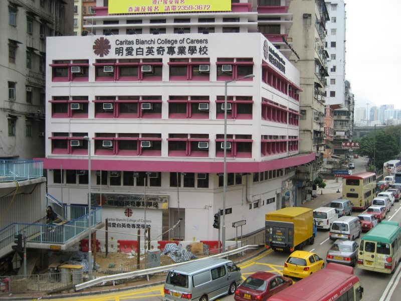 Caritas Bianchi College of Careers